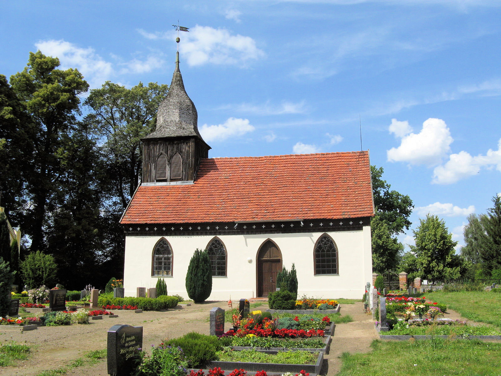 Church in Walow, disctrict Mecklenburgische Seenplatte, Mecklenburg-Vorpommern, Germany